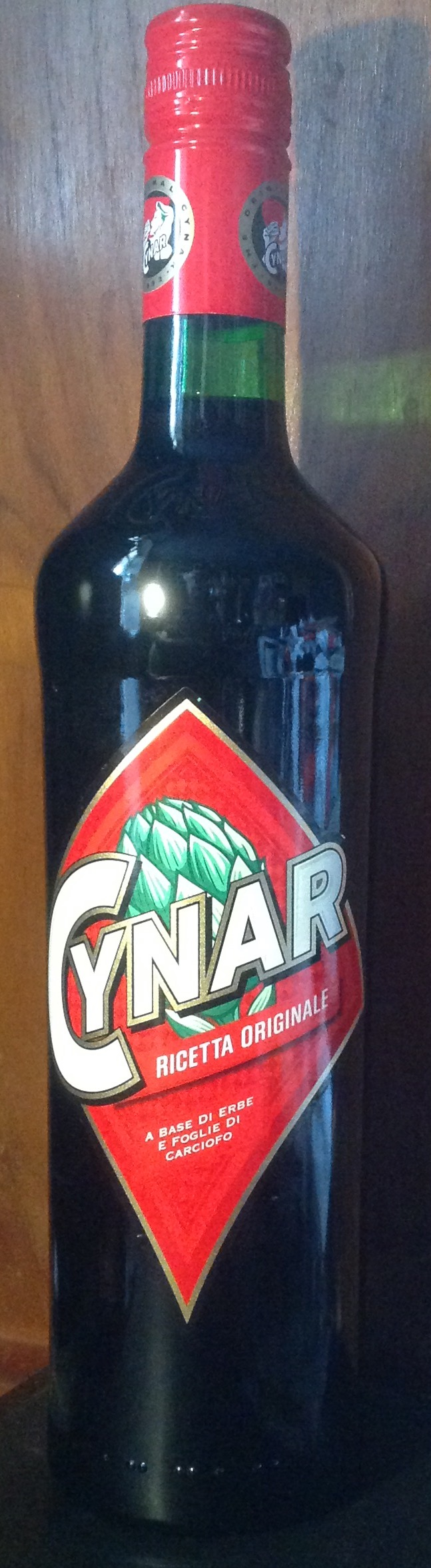 0.7 liter bottle of Cynar.